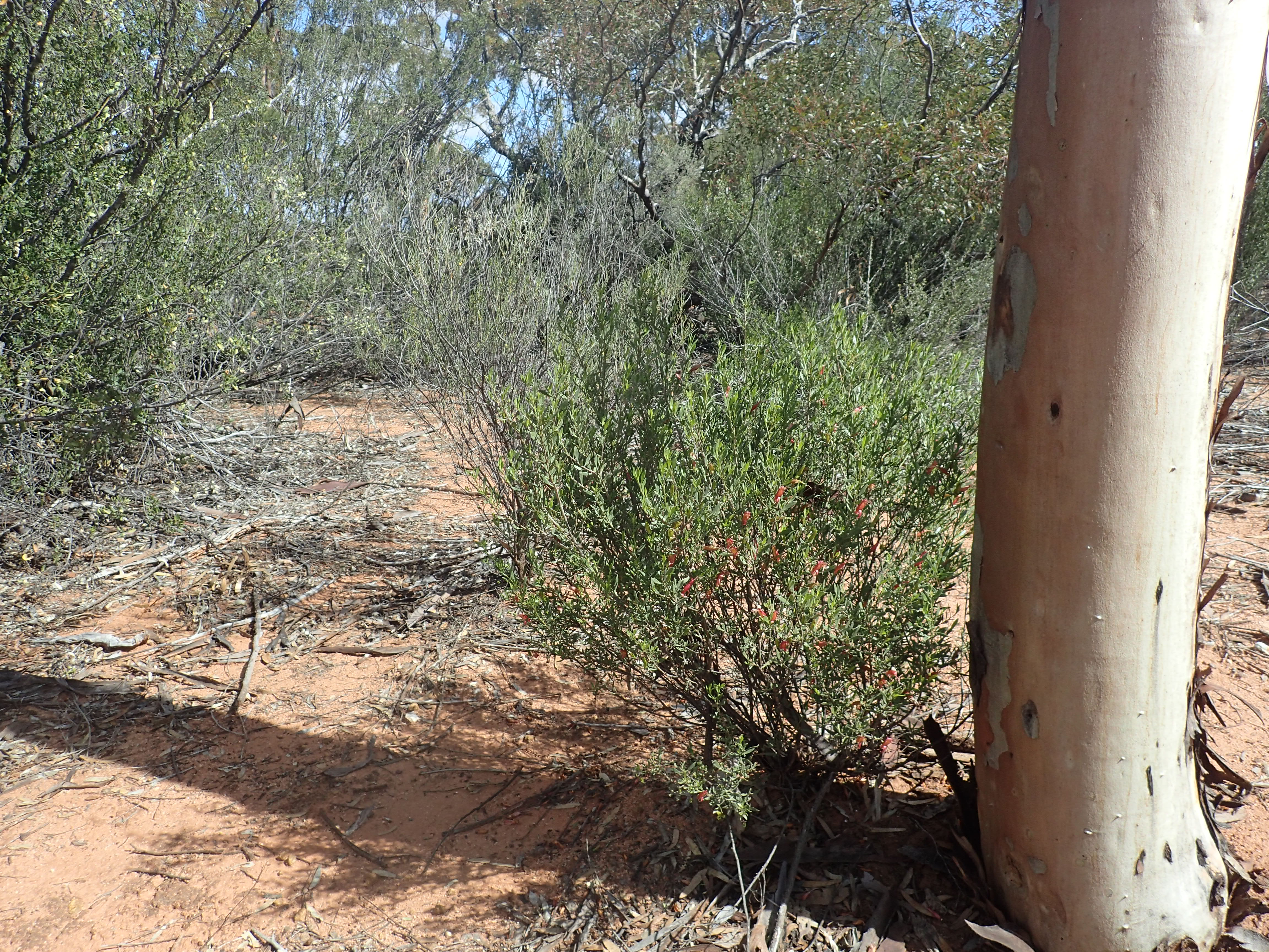 Eremophila maculata brevifolia growing at Bromus Dam